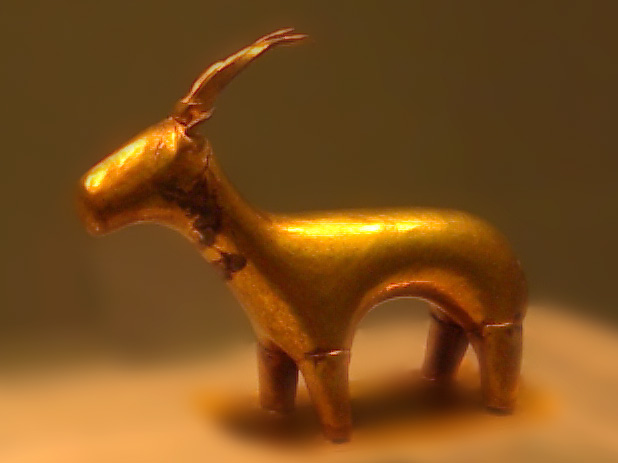 A small golden statue depicting a goat, found during excavation of Akrotiri (Santorini), Greece.Golden Goat